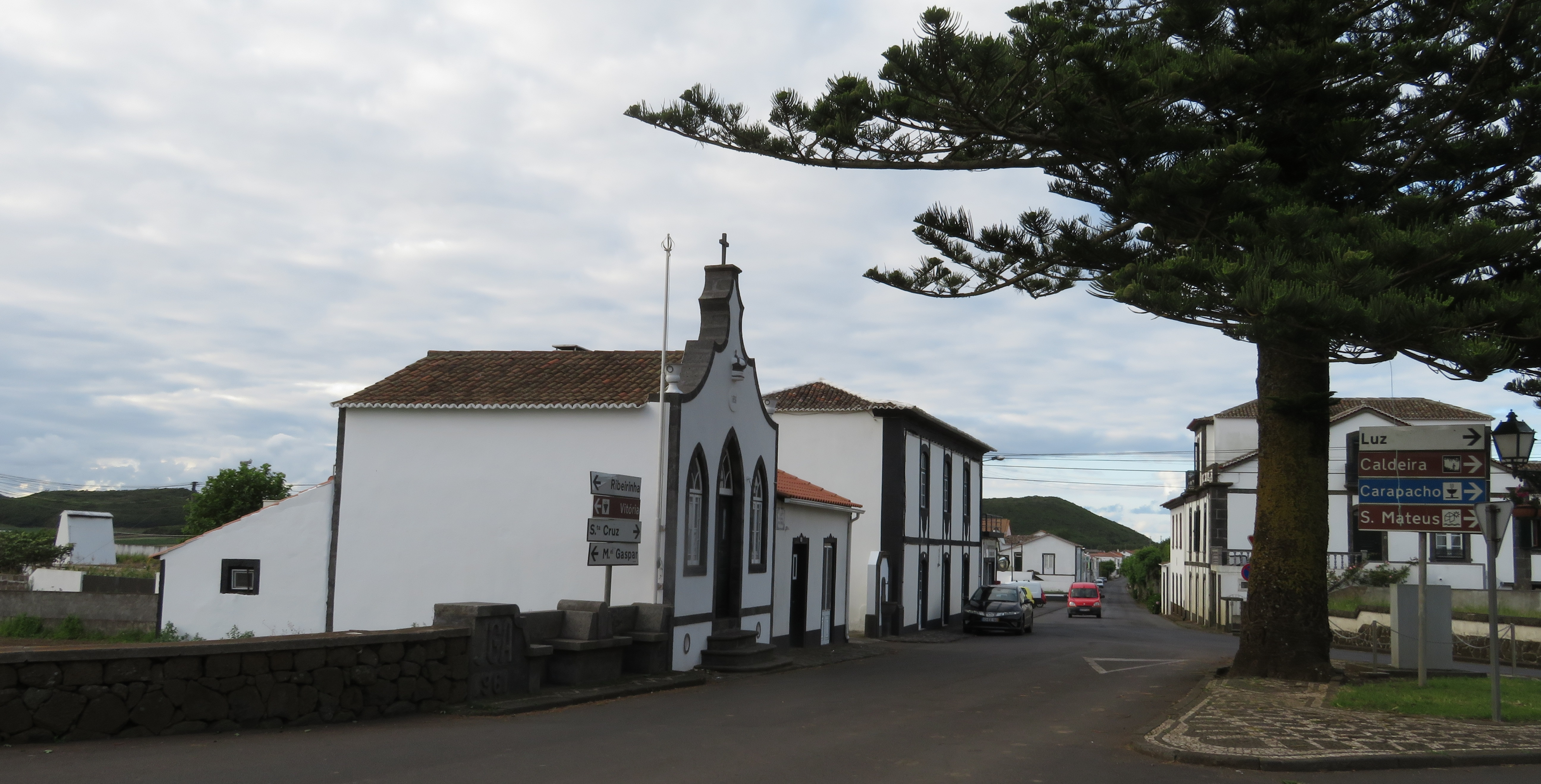 Caminho da Igreja, Main Street of Guadalupe, Graciosa, Azores, Portugal